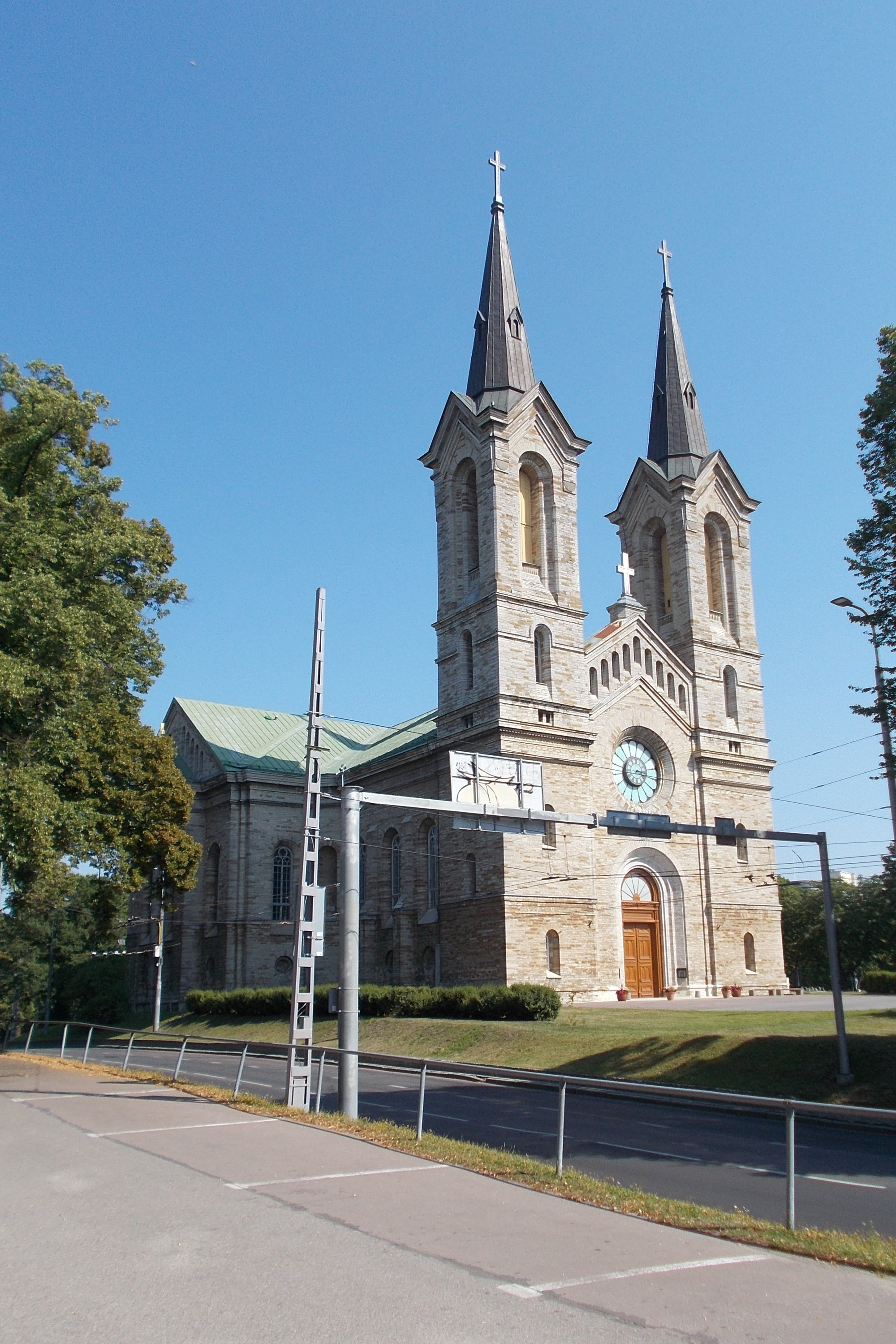 Charles' Church, Tallinn.